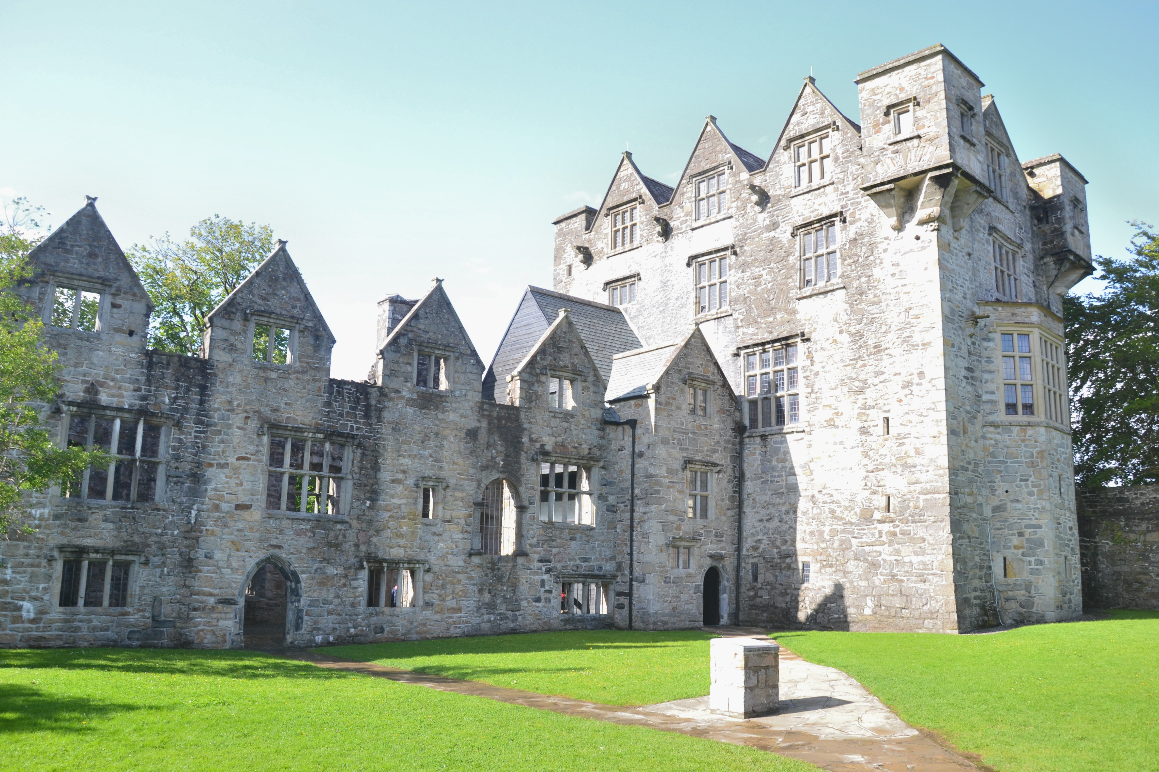 Donegal Castle